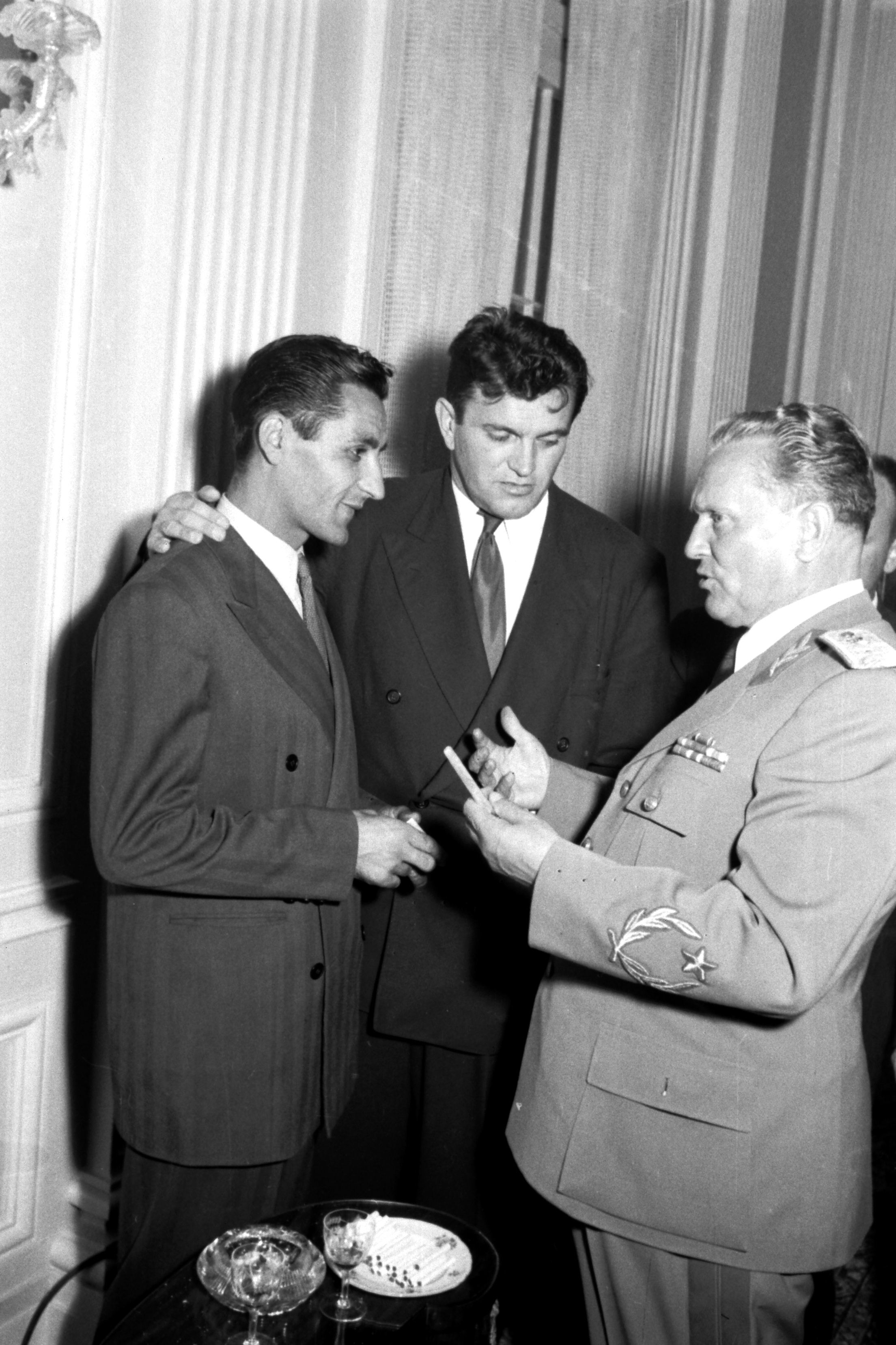 Football legend Rajko Mitić, Vladimir Dedijer and Josip Broz Tito. Photo by renowned photographer Stevan Kragujević.